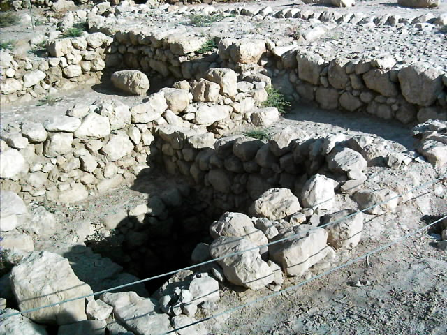 A second-temple-period agricultural sturcture in Einot Tzukim (Ein Phascha)